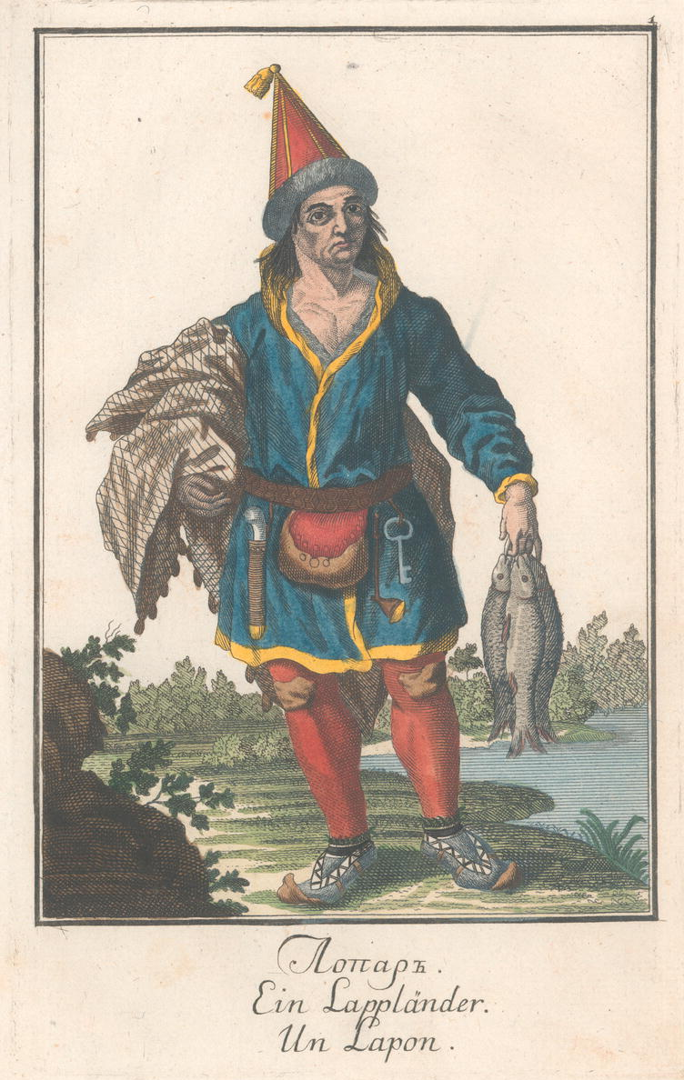 Lapland.